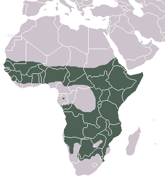 Spotted Hyaena (Crocuta crocuta ) range